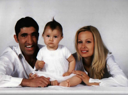 Description = Bashar Rahal with wife Kalina and daughter Chloe in 2003 Permission = authorized by the author Author = wikithewako